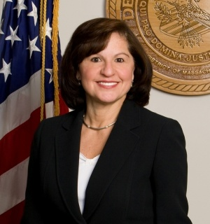 Official portrait as US Attorney Carmen M. Ortiz, District of Mass.